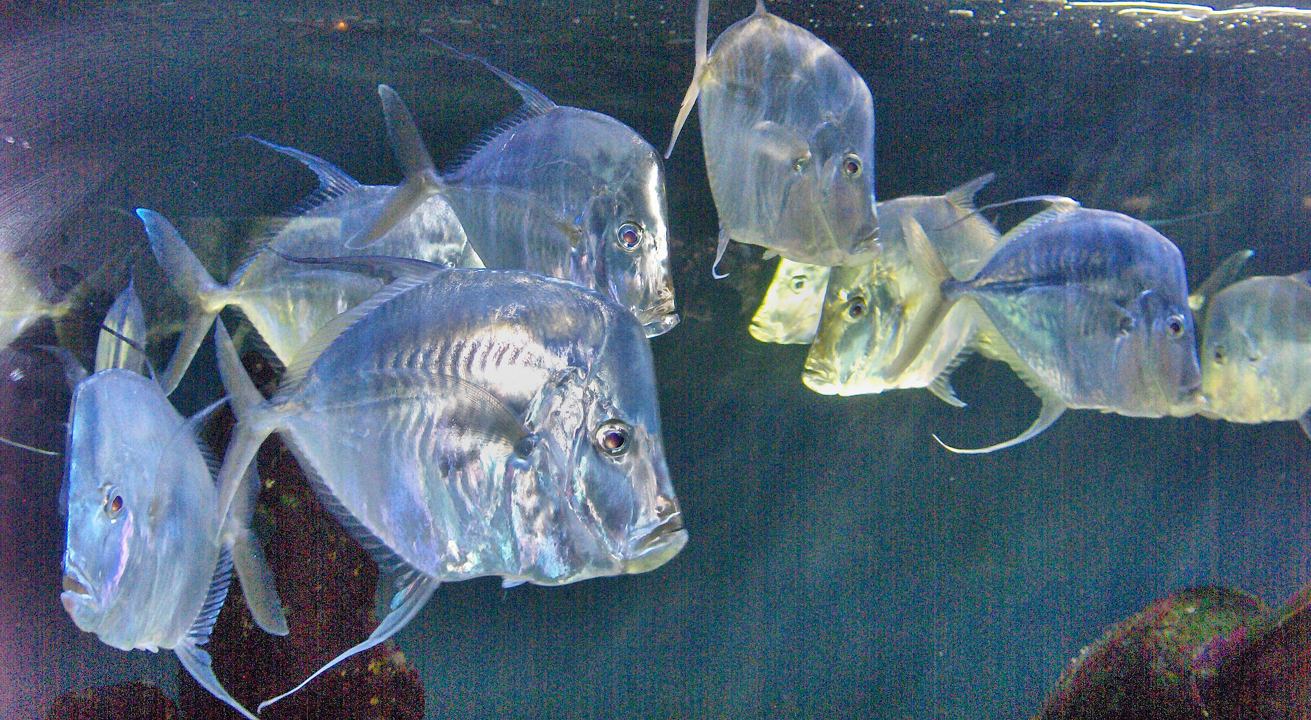 Lookdown (Selene vomer); Musée Océanographique de Monaco